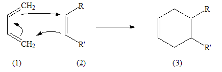 Generic Diels-Alder reaction scheme, no captions